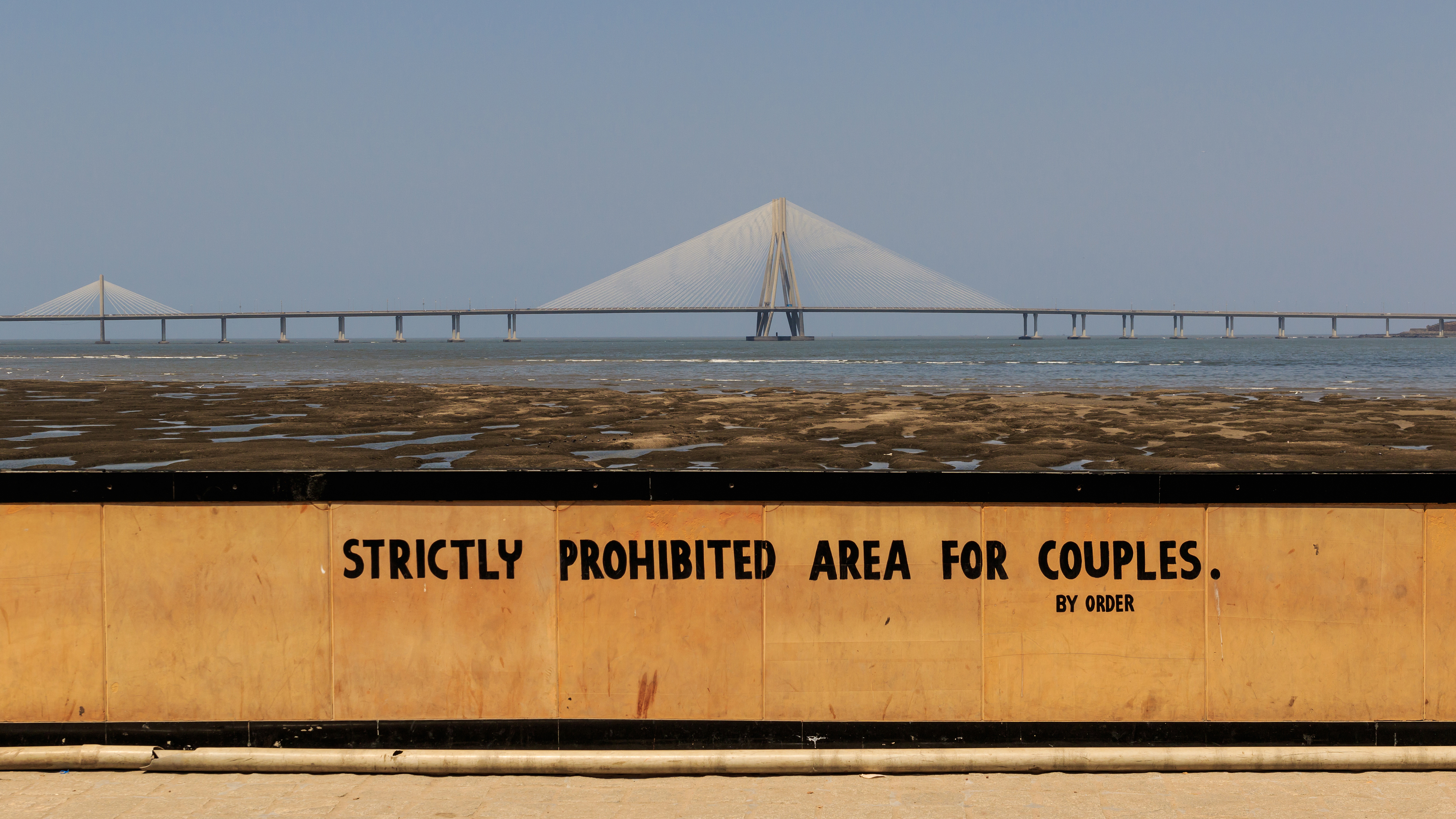 View from Dadar Beach to Bandra-Worli Sea Link in Mumbai, India